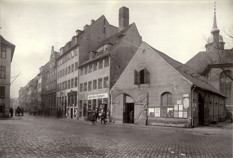 Npw demolished buildings in Store Strandstræde, København. Kr. Hude, 1908, Nationalmuseet.